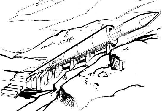 Coilgun launches supplies to orbit.